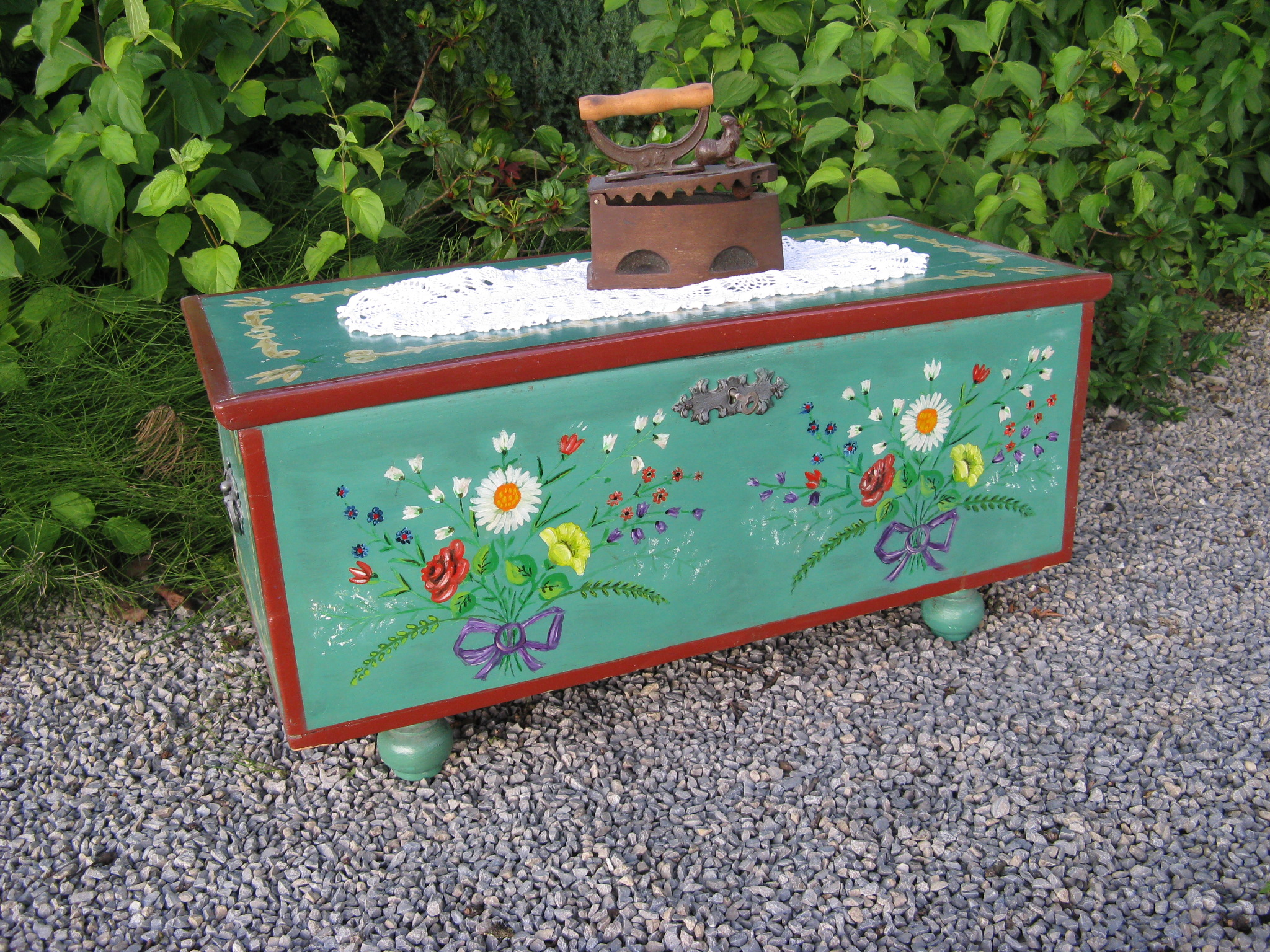 Wooden chest with peasant art